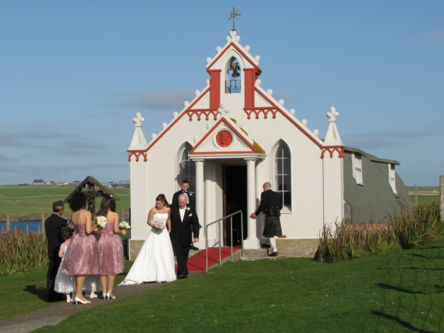 Wedding at the Italian Chapel.